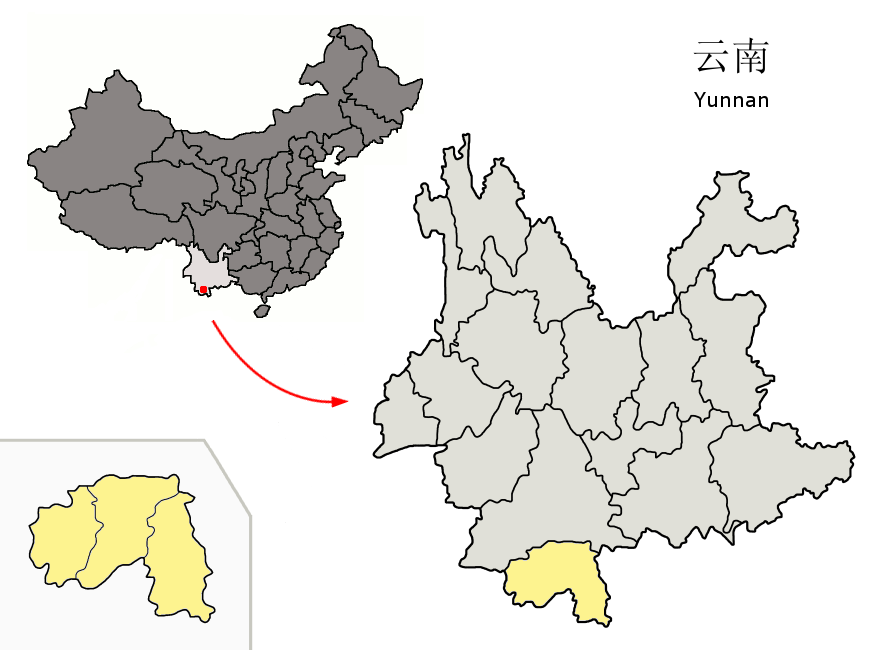 Location of Xishuangbanna Prefecture (yellow) within Yunnan province of China Map drawn in september 2007 using various sources, mainly : Yunnan province administrative regions GIS data: 1:1M, County level, 1990 Yunnan Counties map from